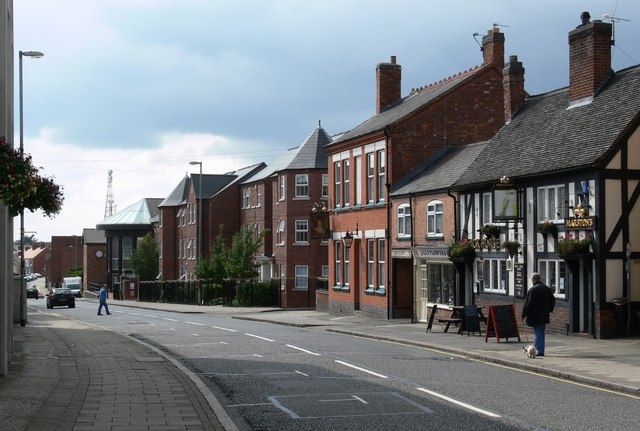 Hinckley: Upper Bond Street. The public house on the right is the Black Horse.